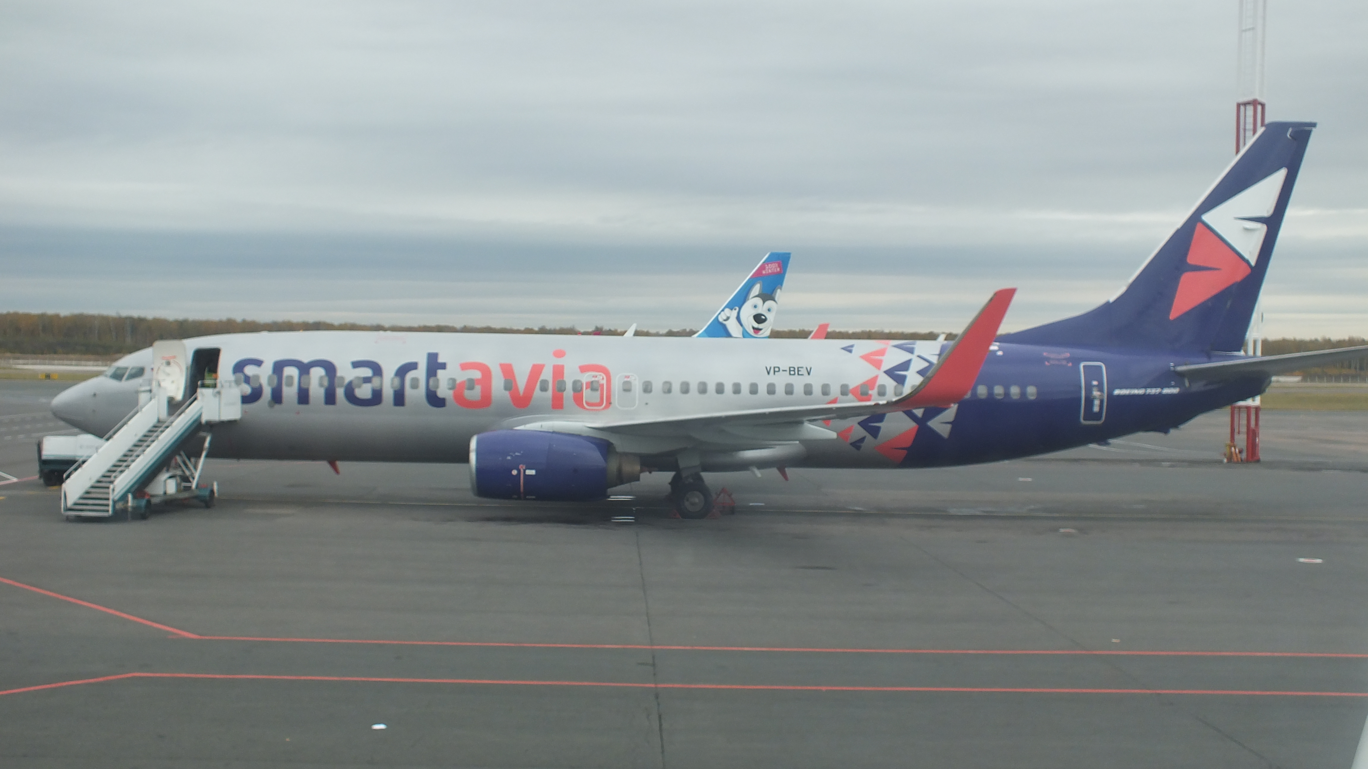 A SmartAvia Boeing 737-800 at Domodedovo International Airport on 2 October, 2019